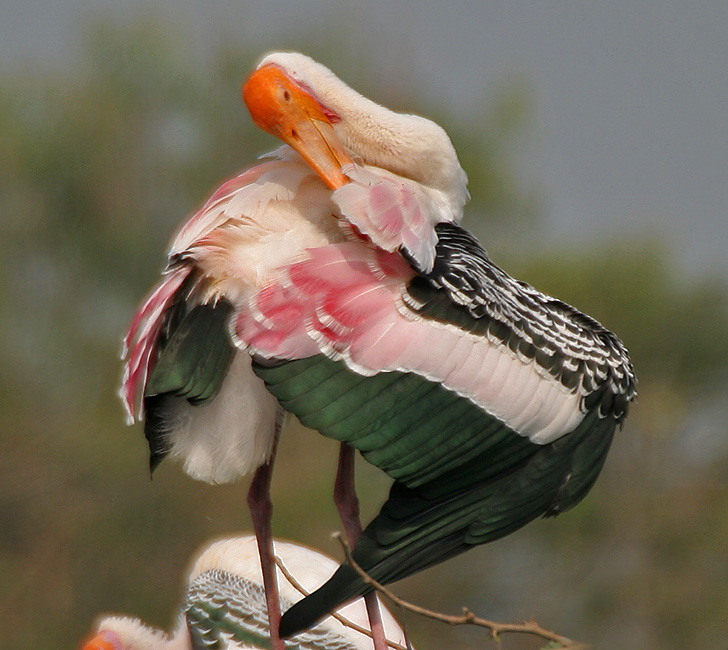 Painted Stork Mycteria leucocephala at Uppalapadu, Andhra Pradesh, India.